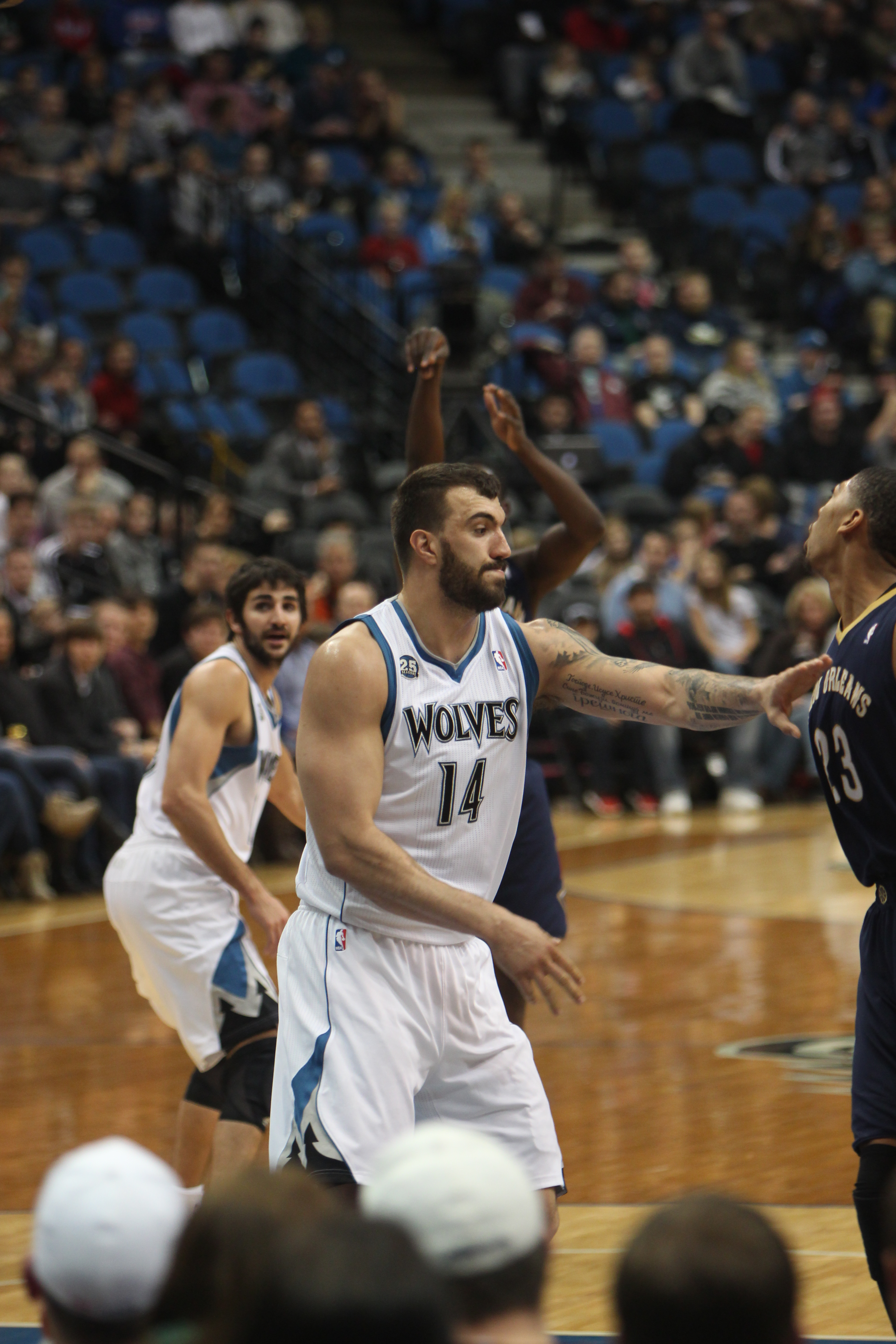 Nikola Peković at the Target Center